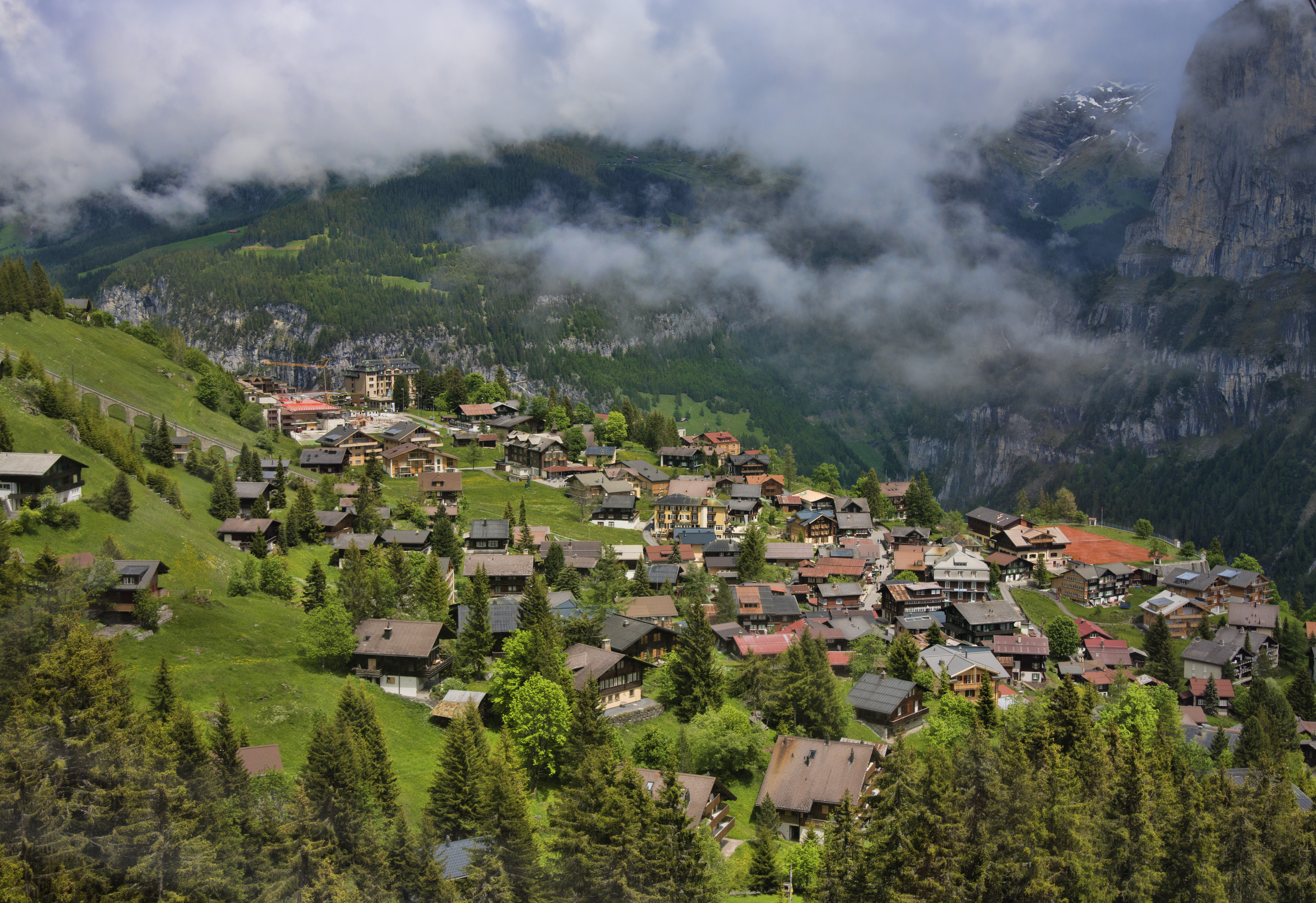 murren switzerland 2012